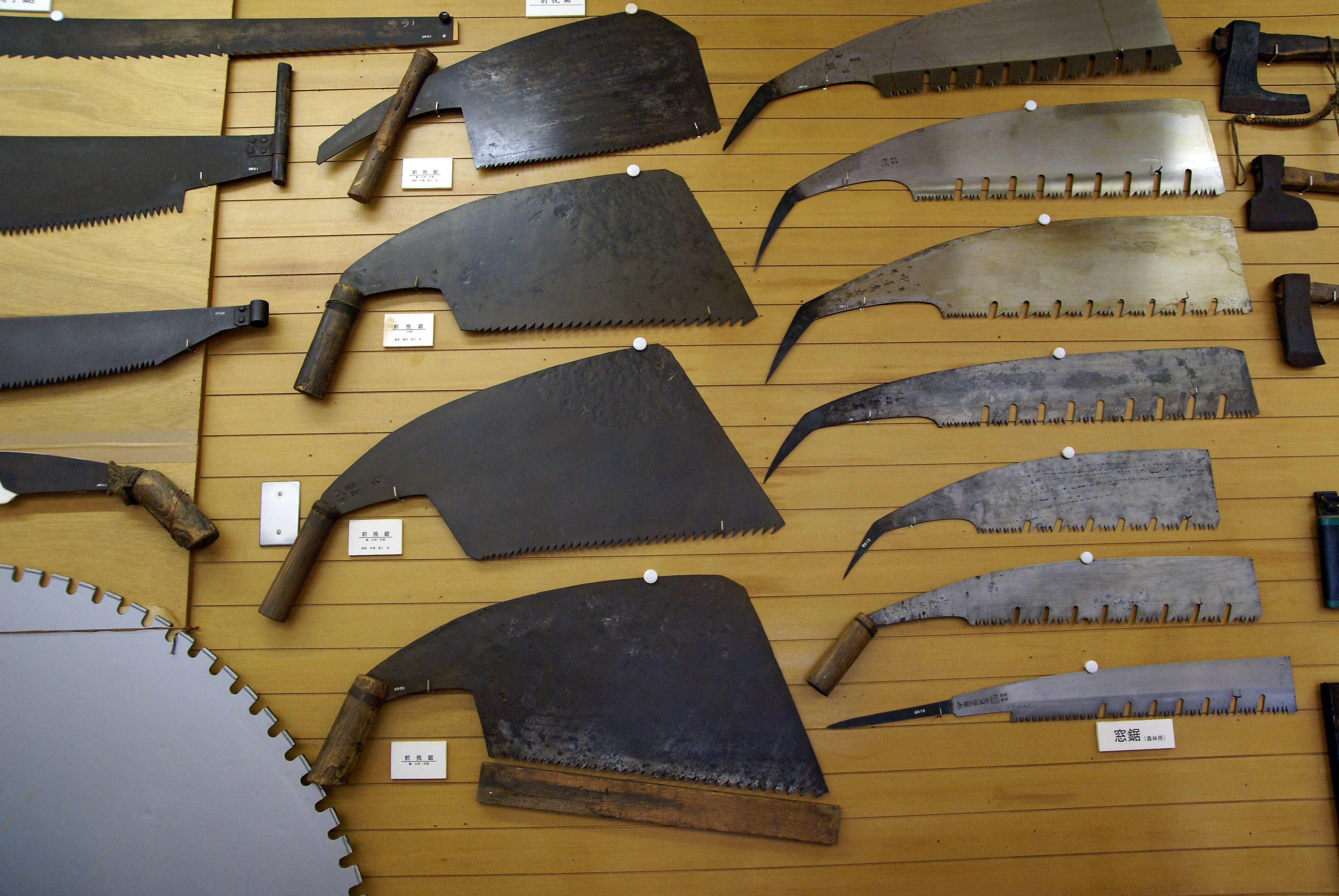 Miki City Hardware Museum in Miki, Hyogo prefecture, Japan